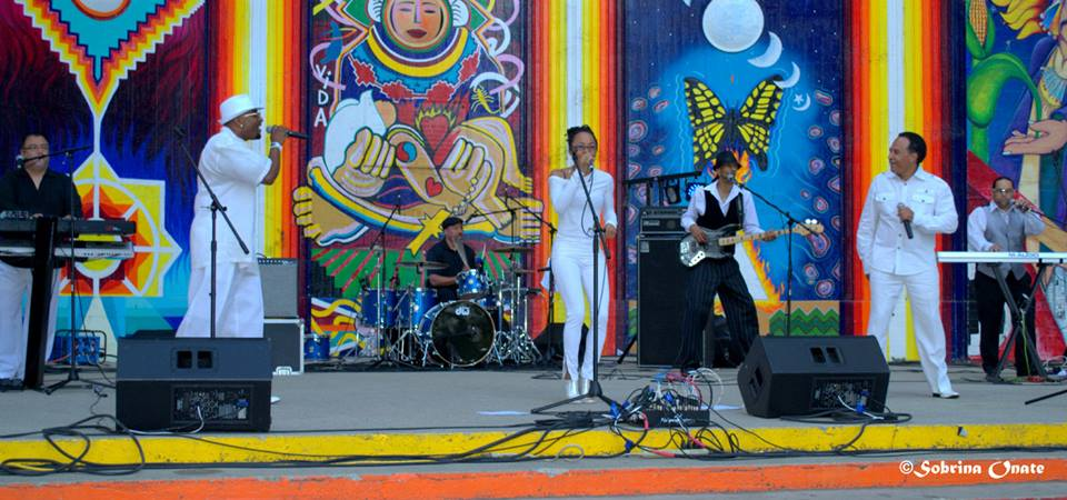 Club Nouveau performing at the Ultimate Love Connection Music Festival in Sacramento, CA by Sobrina Onate.